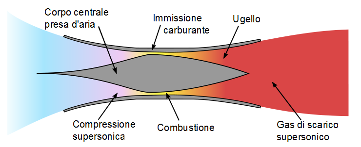 Diagram of principle of operation of a scramjet engine.